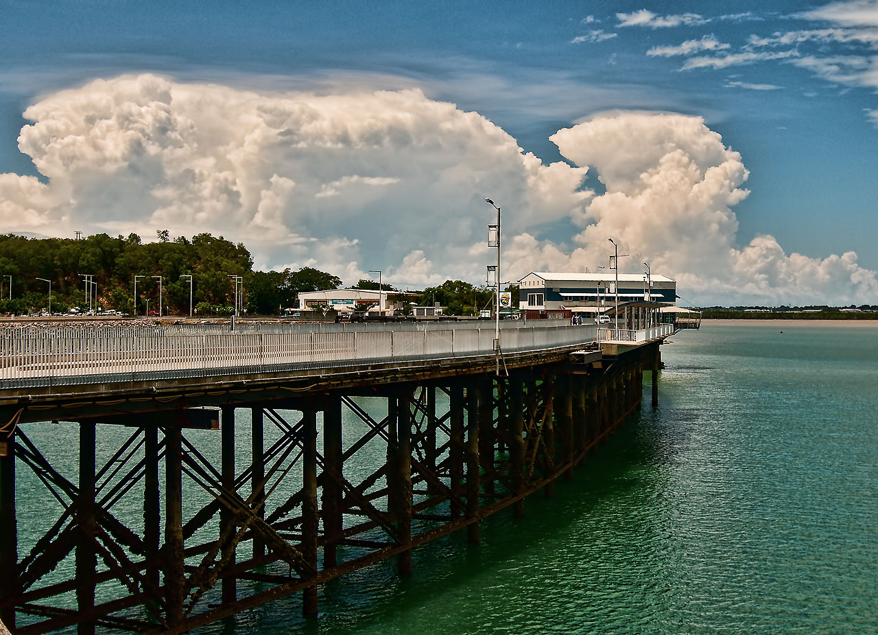 An image of Hector (cloud) taken from Stokes Hill Wharf in Darwin, Northern Territory, Australia.